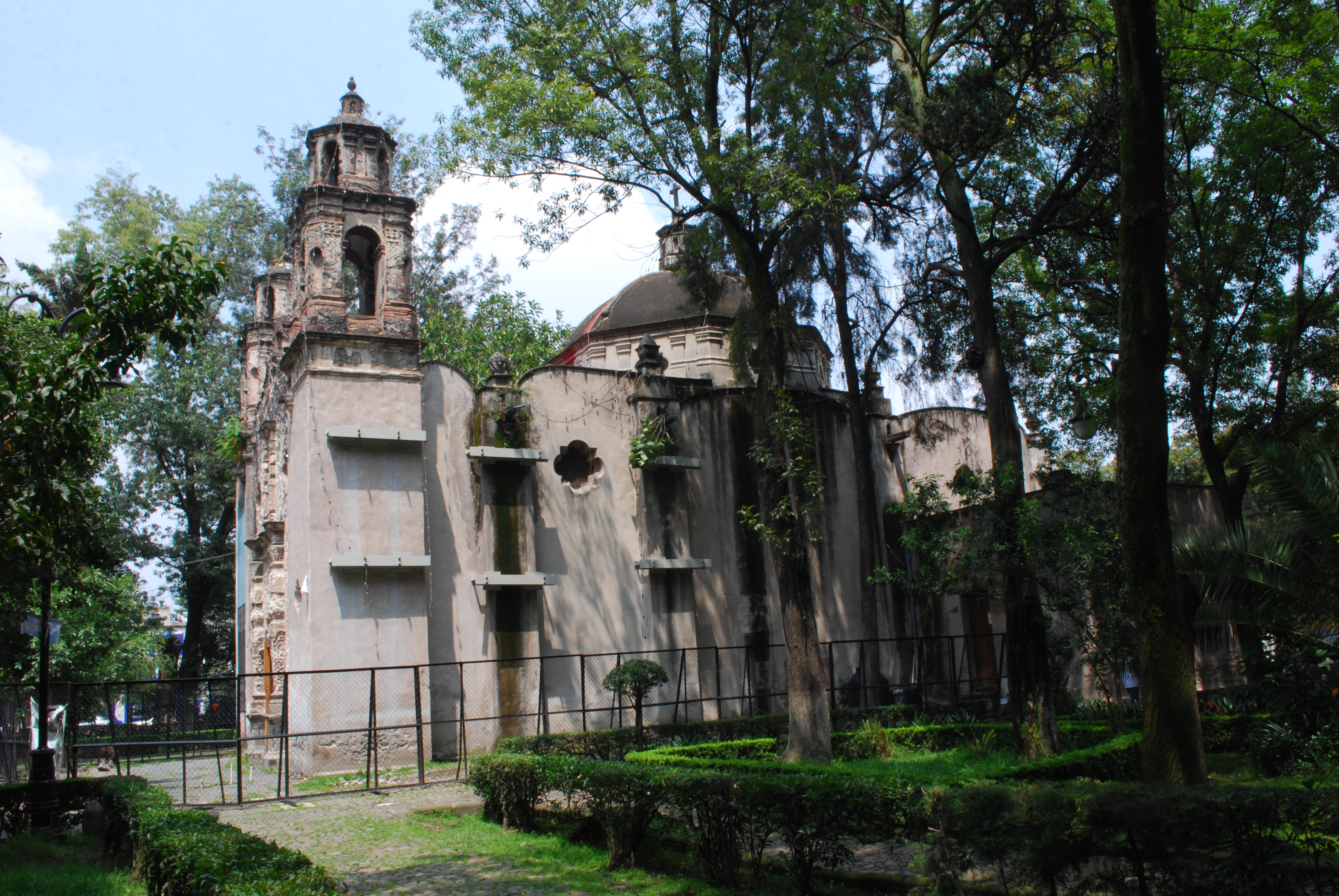 View of the Capilla de la Inmaculada Concepción located in Coyoacán, Mexico City